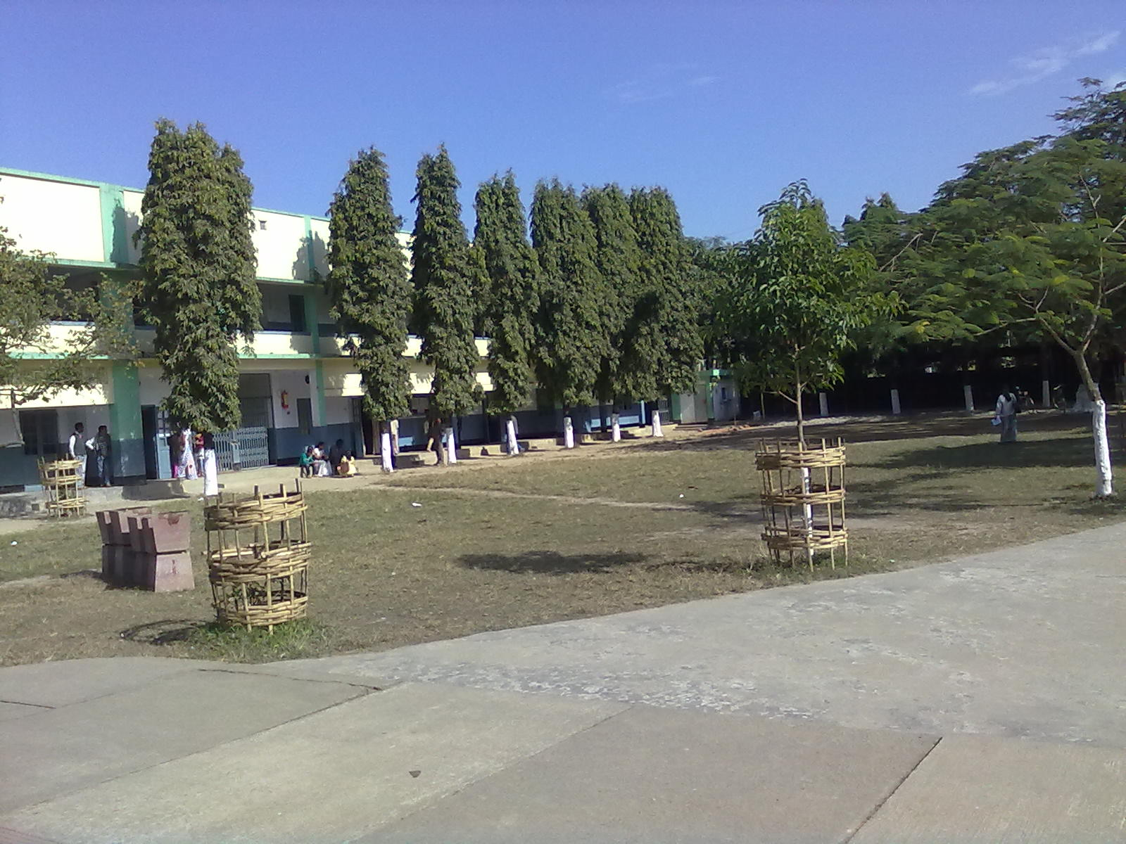 Don Bosco School, Tinsukia